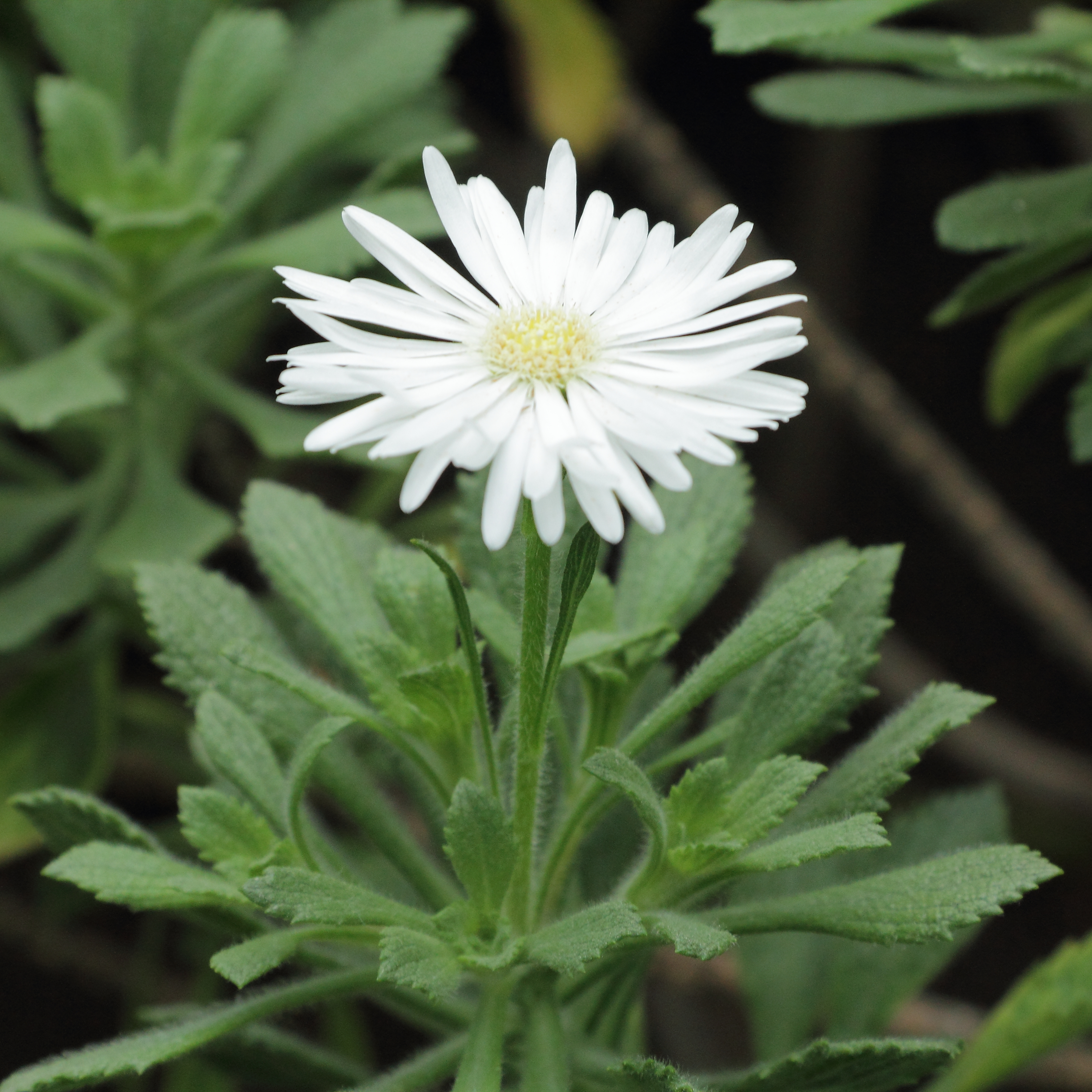 Commidendrum rugosum identified by the label at Kew Gardens.